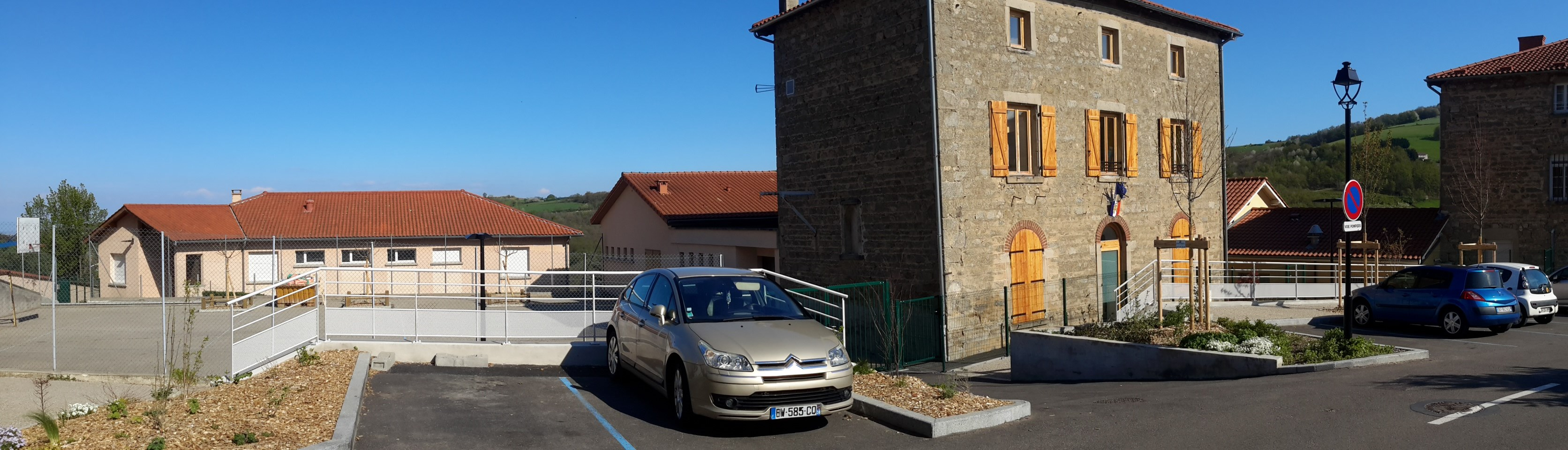 Nursery and primary school, Rontalon, Rhône, France.